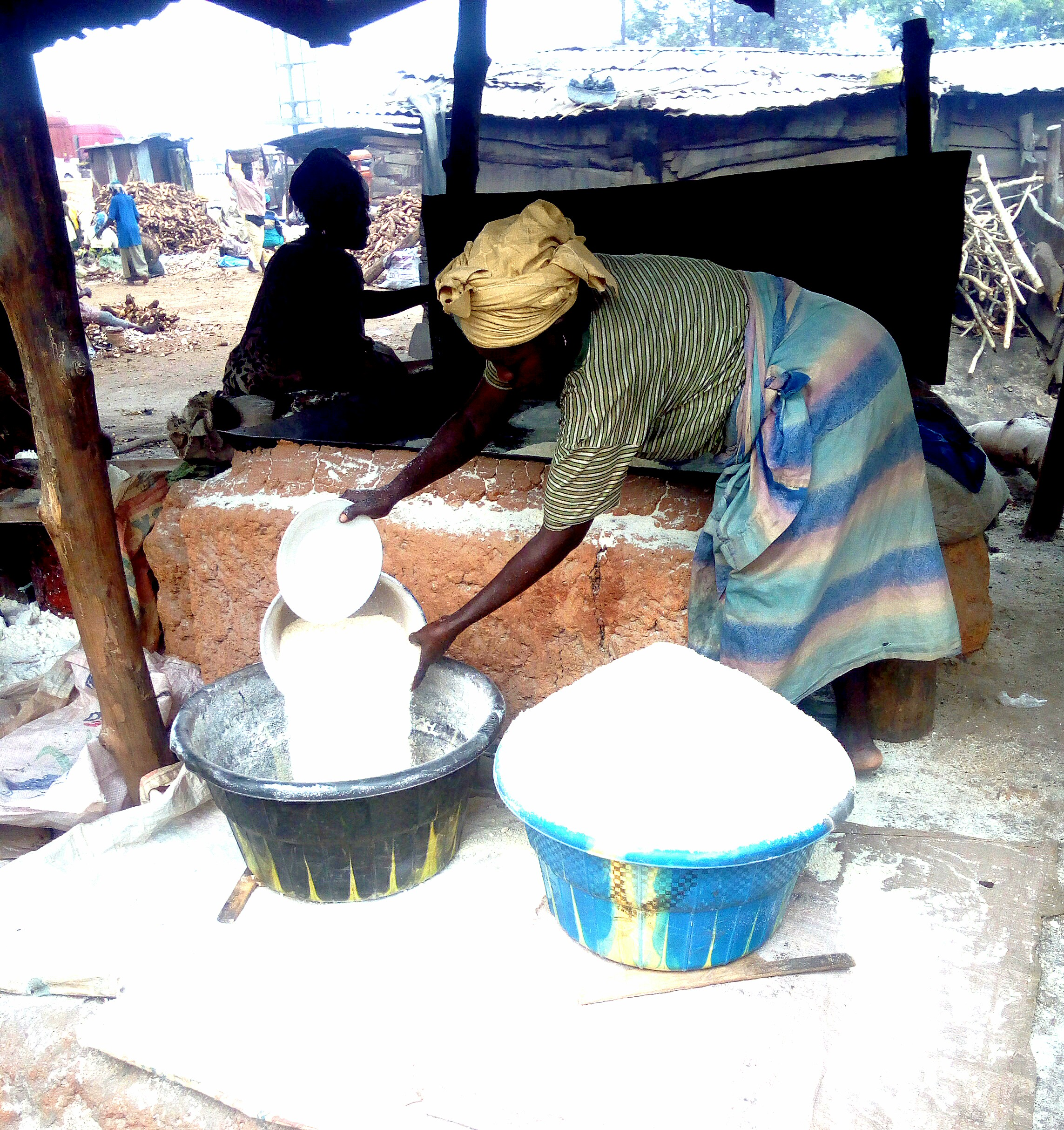 Garri...a popular West African food made from cassava tubers. This is an image of "African people at work" from Nigeria